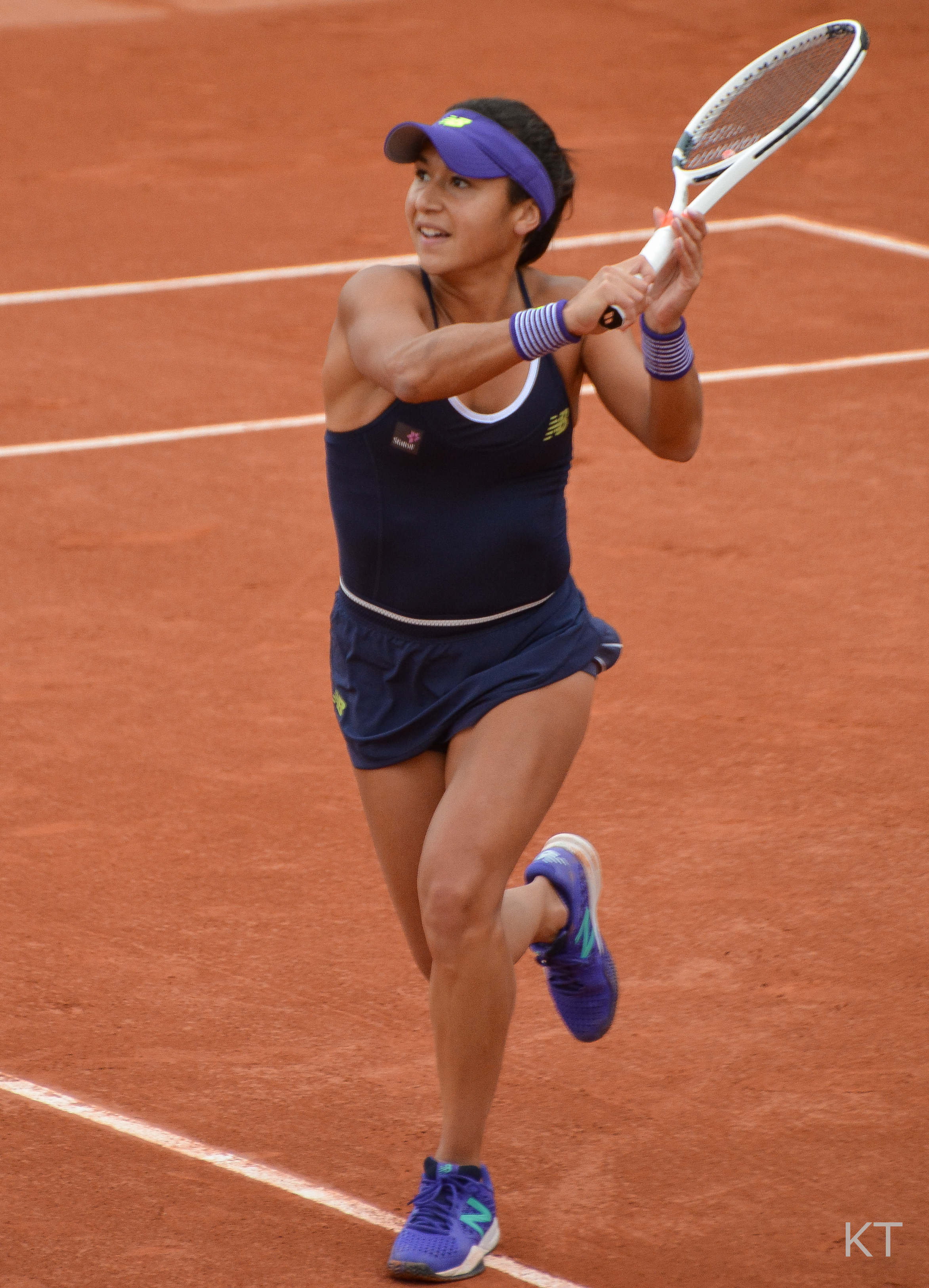 Day 2 of Roland Garros 2016.